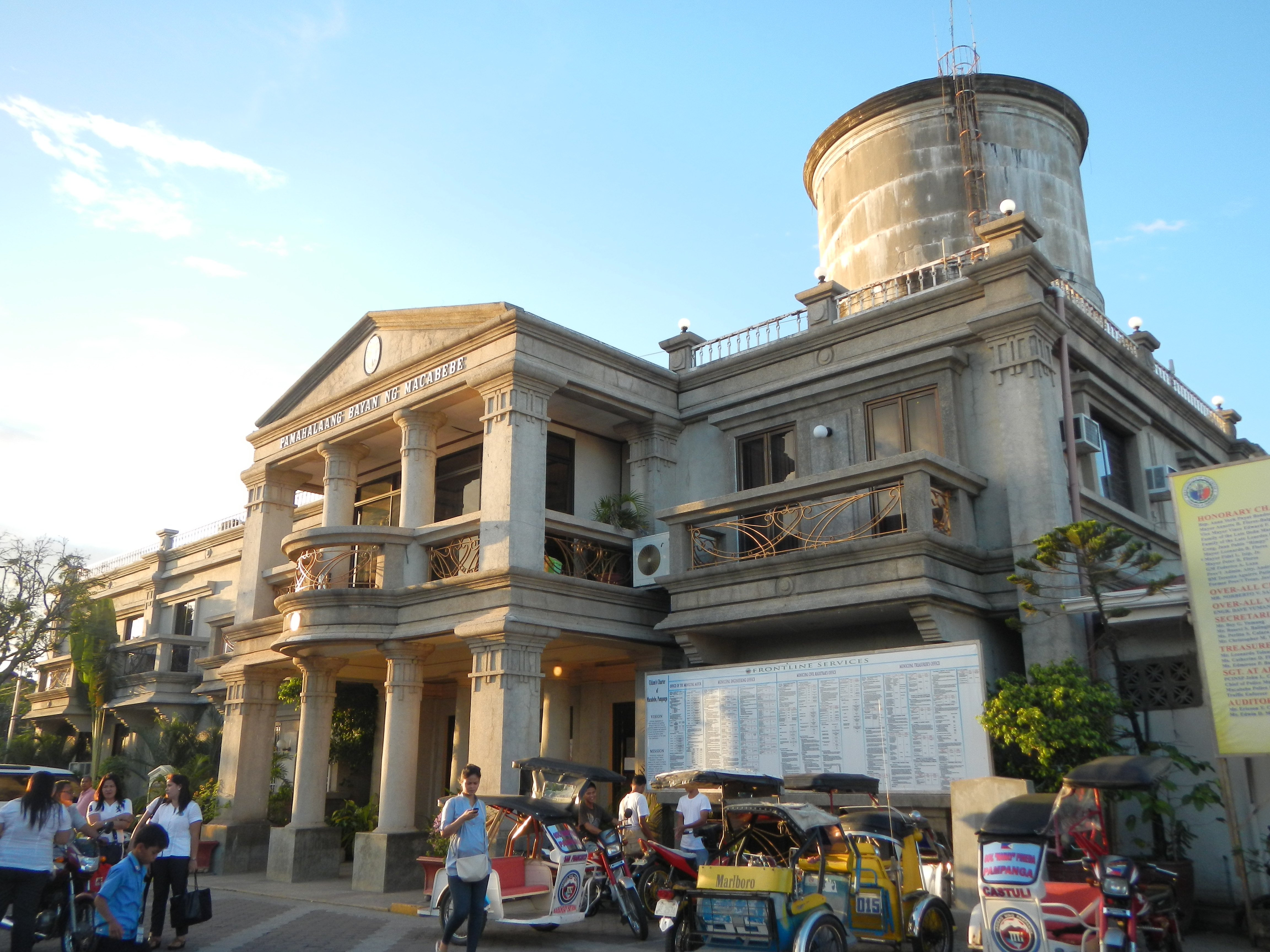 Town hall Macabebe[1]